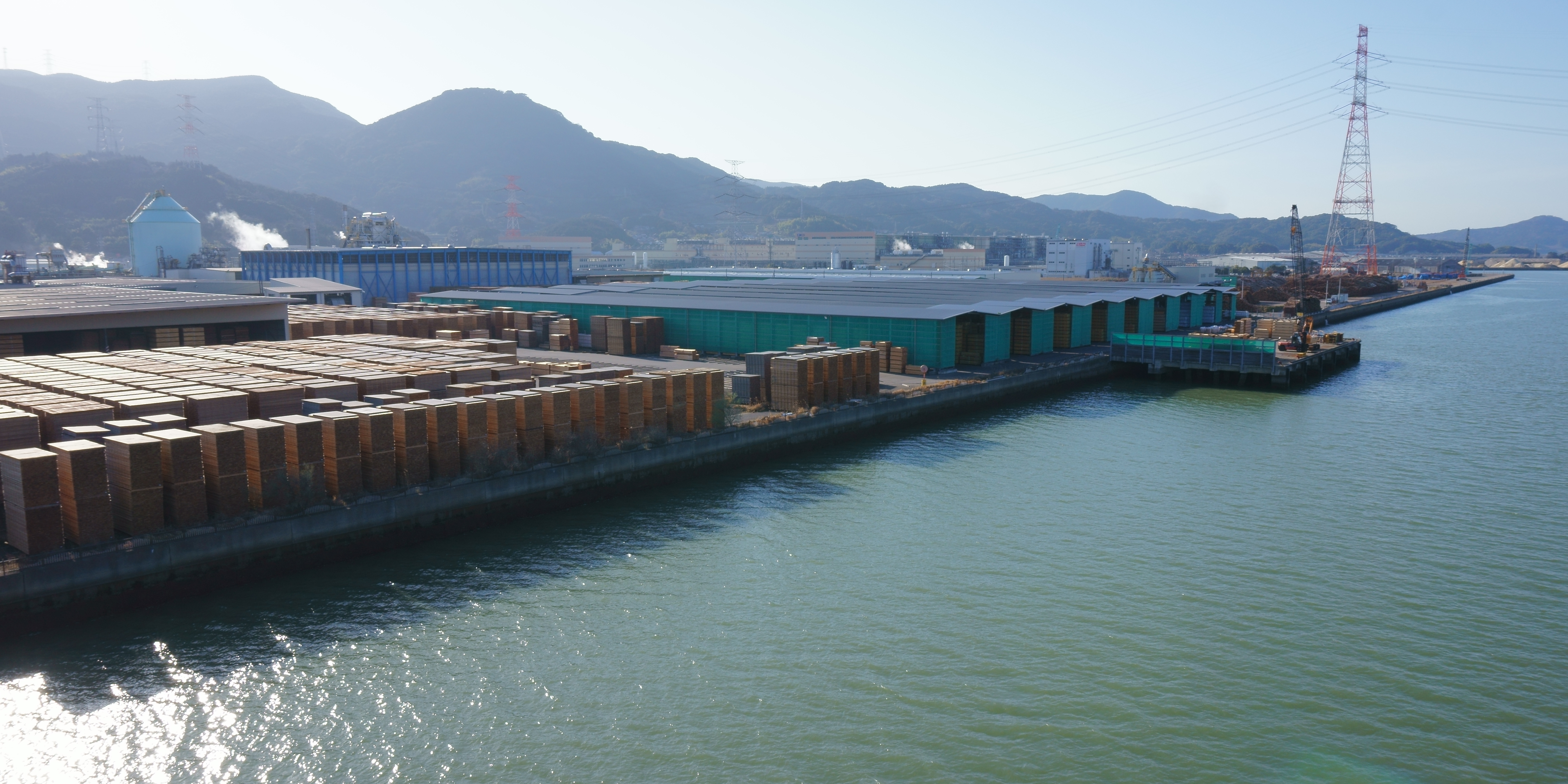 Factories in coastal industrial zone in Kubara, Higashiyamashiro-chō, Imari city, Saga prefecture.